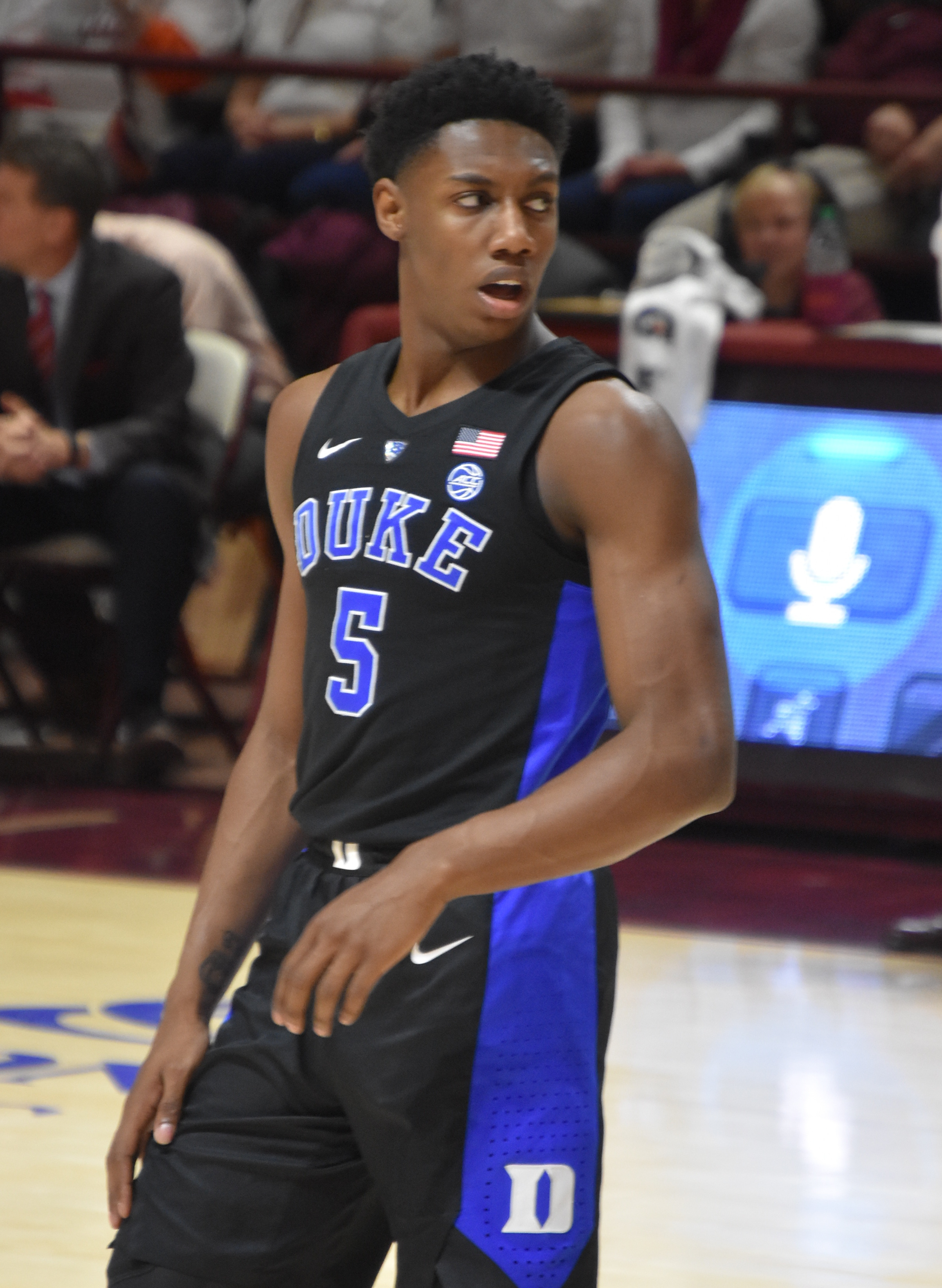 R. J. Barrett on the floor for the Blue Devils at Cassell Coliseum